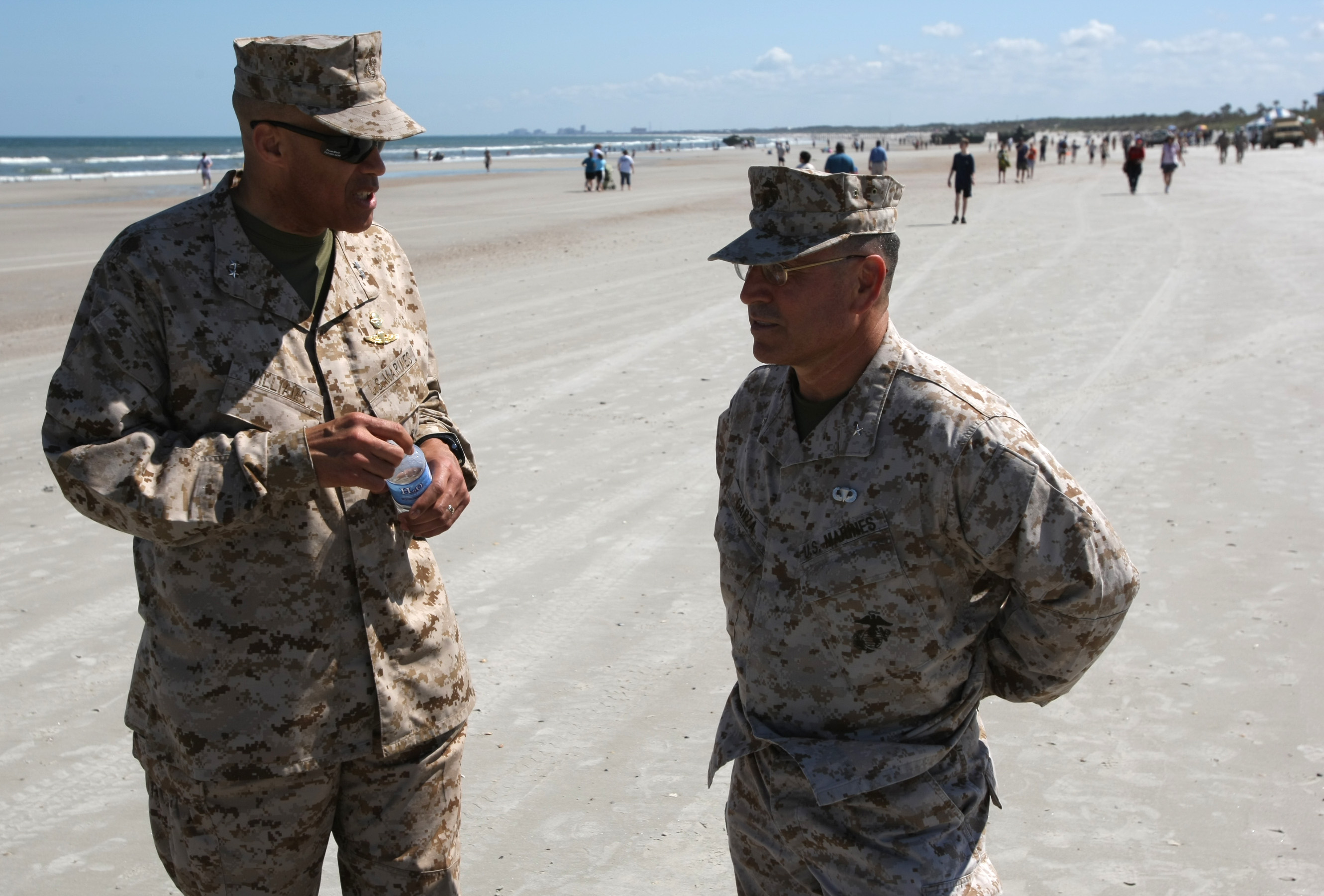 From the source: U.S. Marine Corps Maj. Gen. James Williams, commanding general of 4th Marine Division, Marine Forces Reserve, and Brig. Gen. David Garza, chief of staff of U.S. Southern Command, speak together at the conclusion of the amphibious demonstration held at Mayport Beach, Fla., April 25, 2009, during Partnership of the Americas (POA) 2009. (Text, like the image, is Public Domain as a work of the United States Military) Maj. Gen. James Williams is the taller man on the left.